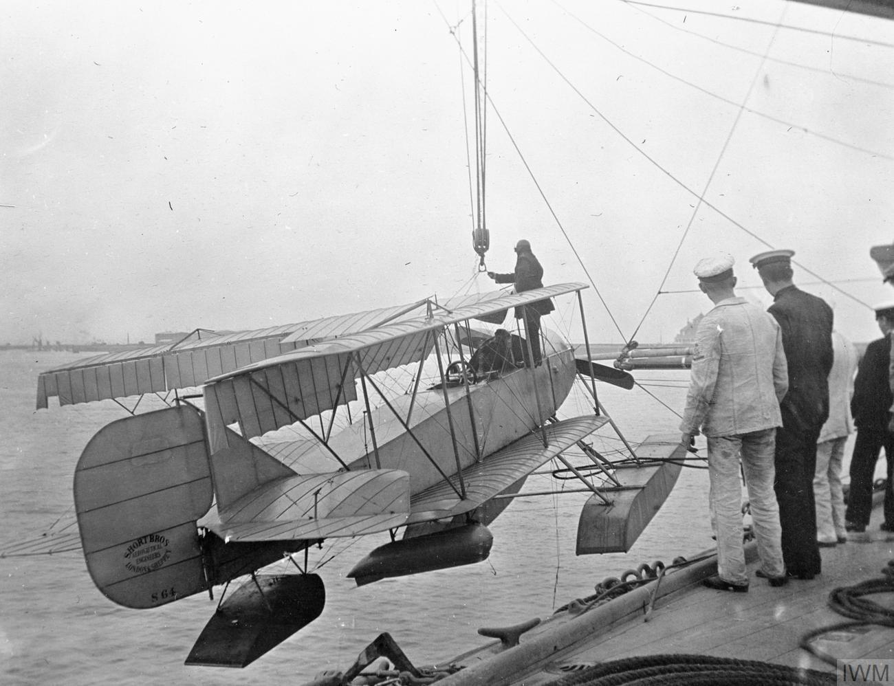 IWM caption : "Short Folder seaplane (S.64), serial number 81, being hoisted out from HMS HERMES with wings folded. The HERMES was an obsolete cruiser fitted as a seaplane carrier for the 1913 naval manoeuvres. This particular aircraft was the first Short Folder to enter naval service. It passed acceptance trials on 17 July 1913 and was placed aboard HMS HERMES for the manoeuvres. The aircraft was damaged on 22 July when a gale blew down its canvas screen hangar. On 4 September 1913 the seaplane crashed into the sea from 1,000ft after its rudder jammed. Following repairs the machine was used at the seaplane base on the Isle of Grain until wrecked in May 1914."